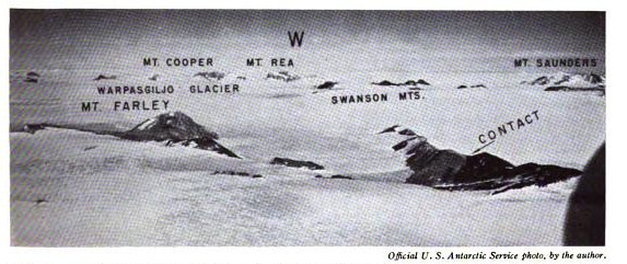 Photo showing the Warpasgiljo Glacier looking torwards the West